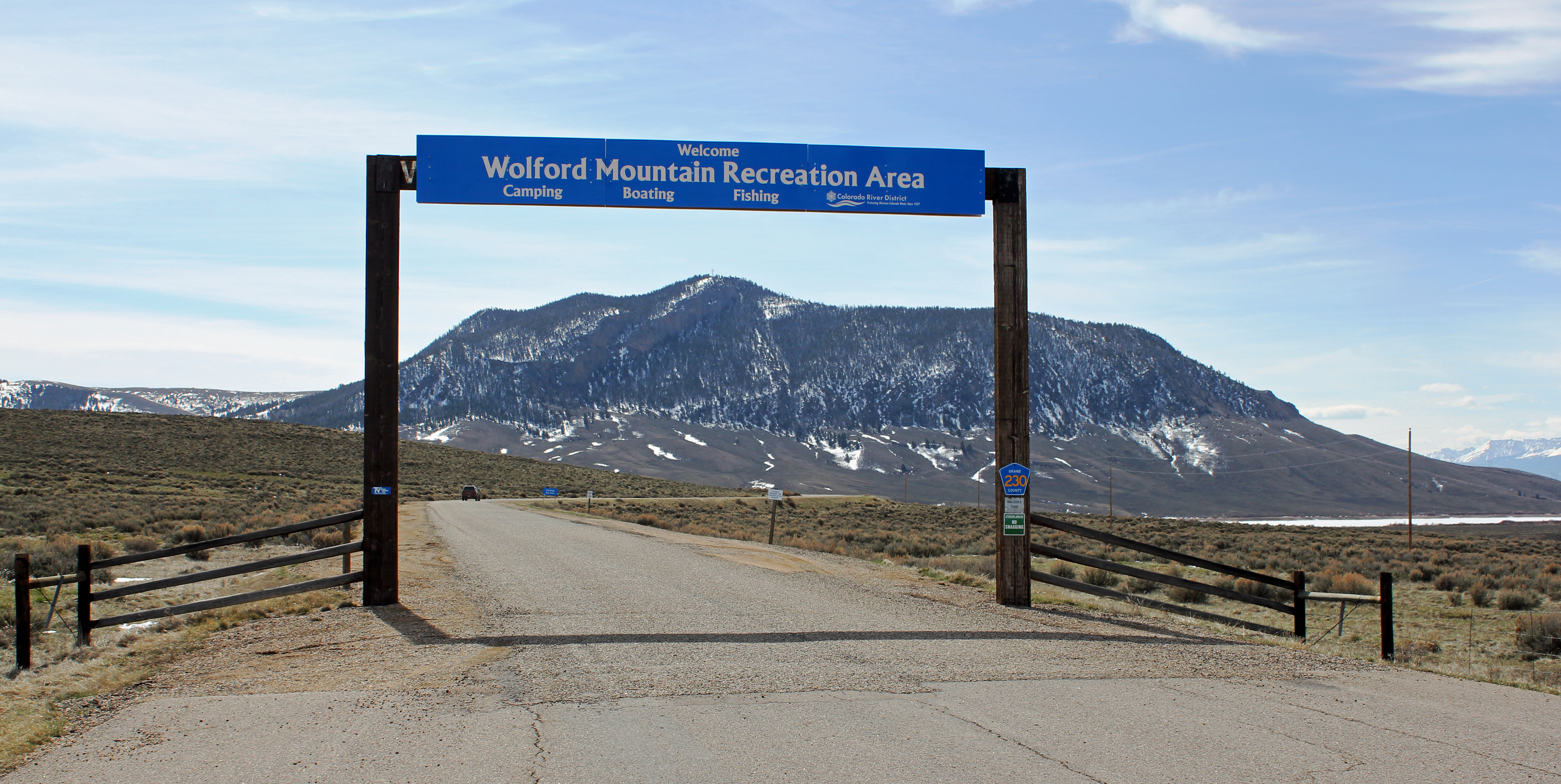 The Wolford Mountain Recreation Area, located in Grand County, Colorado. The Wolford Mountain Reservoir is visible in the photo, frozen.